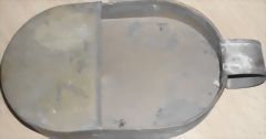 Coin box (used by street performers).